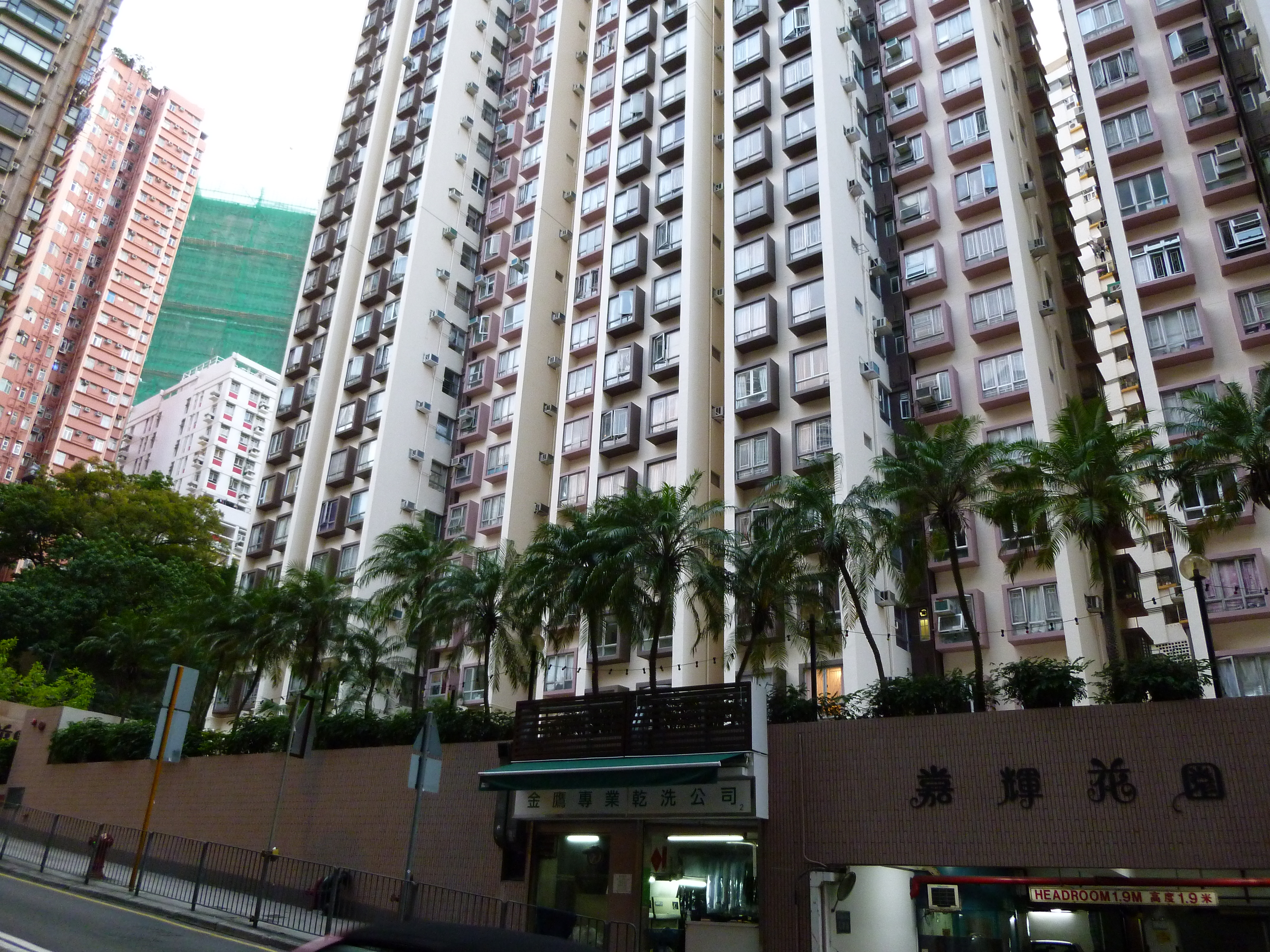 Smithfield Terrace (71 Smithfield, Kennedy Town, Hong Kong)